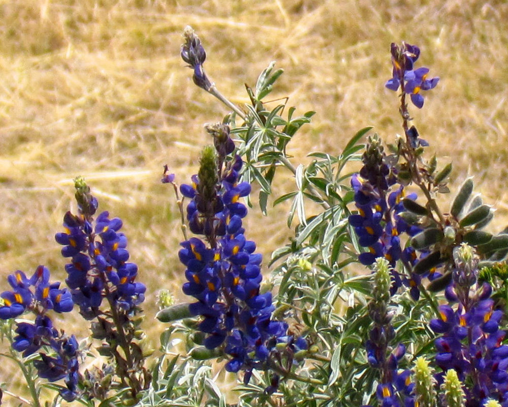 Peruvian Field Lupines (Lupinus mutabilis), Pisac, Peru